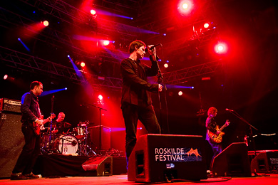 Soulsavers in concert